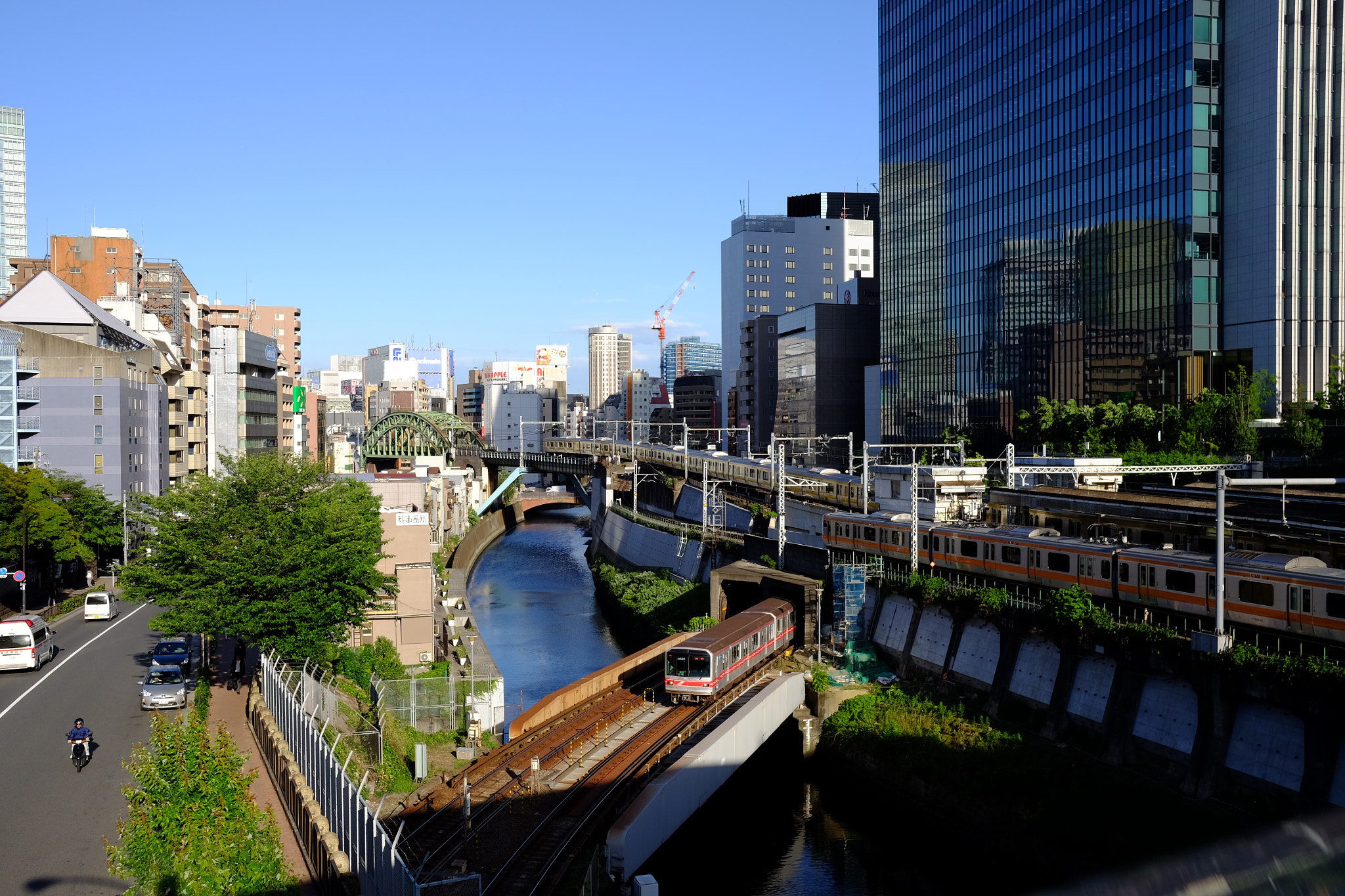 500px provided description: [#Architecture ,#City ,#Cityscape ,#Train ,#Tokyo ,#Japan]